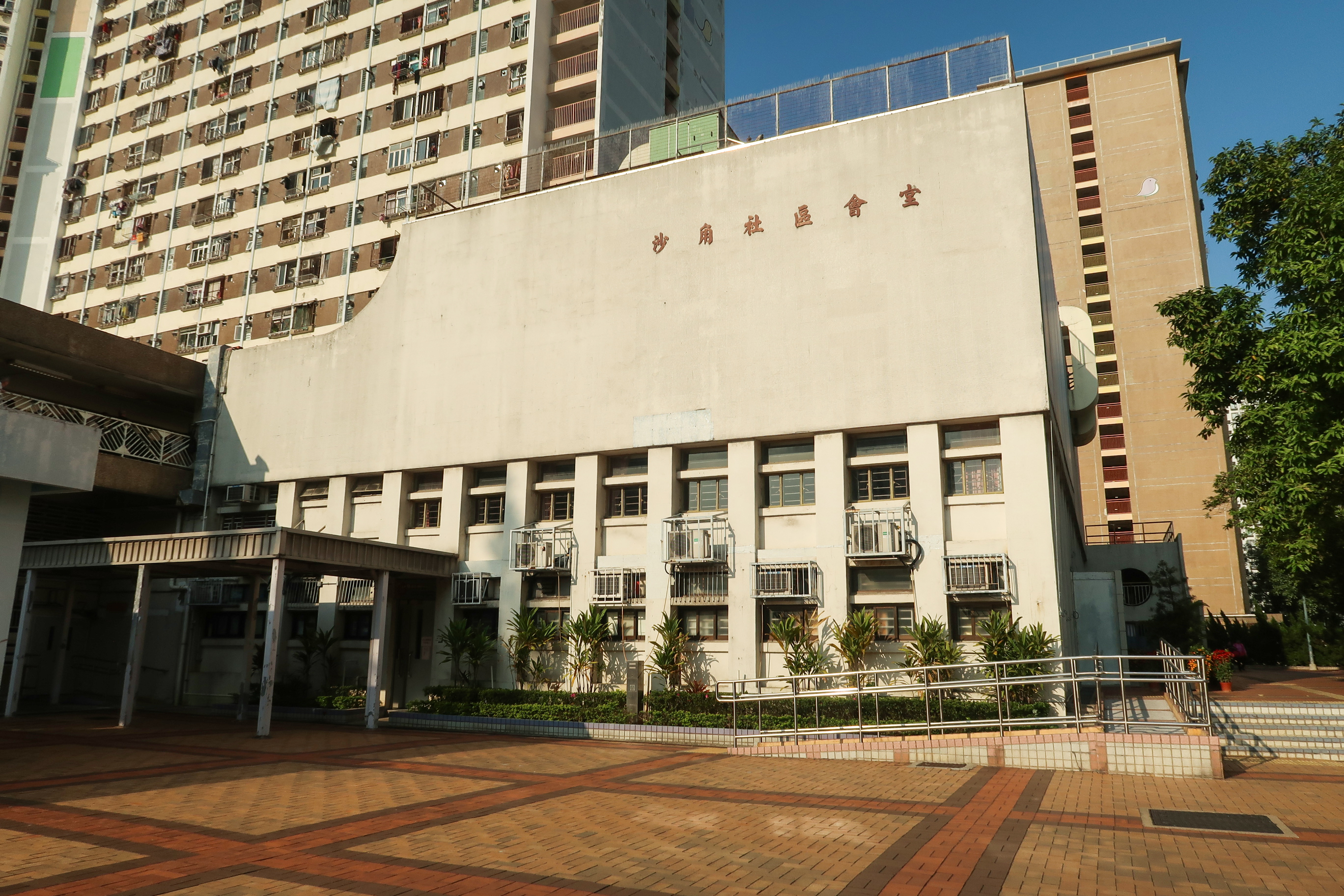 Sha Kok Community Hall